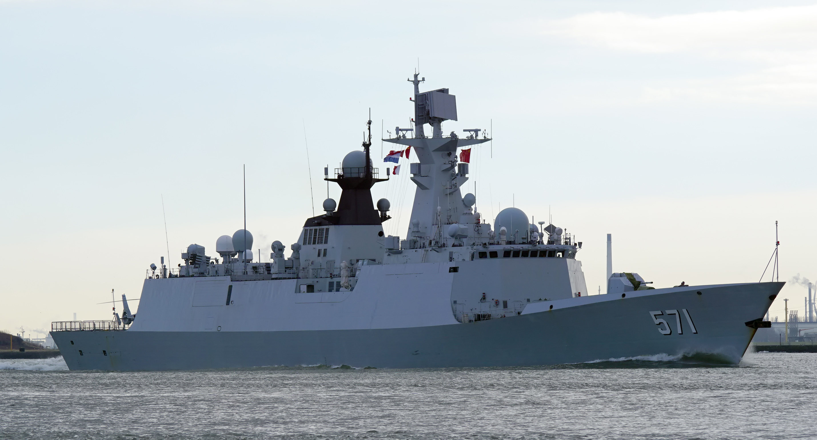 PLANS Yuncheng (FFG-571) at Nieuwe Waterweg, Rotterdam